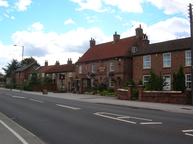 Dawnay Arms Situated in the village of Shipton between York and Thirsk on the A19.